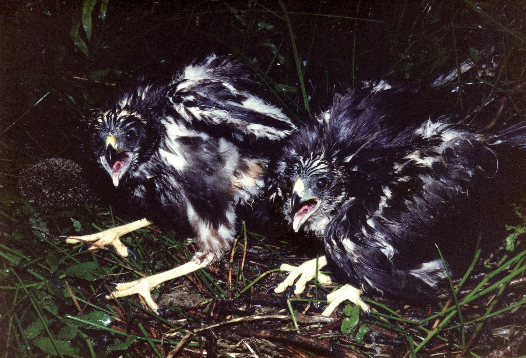 Swamp Harrier chicks Circus approximans discovered in a nest in a swampy area on a kiwifuit orchard near Waihi, New Zealand, circa 1988. Image scanned from original print, best viewed in large format. Note the hedgehog carcass presumably caught for the chicks, far left middle.